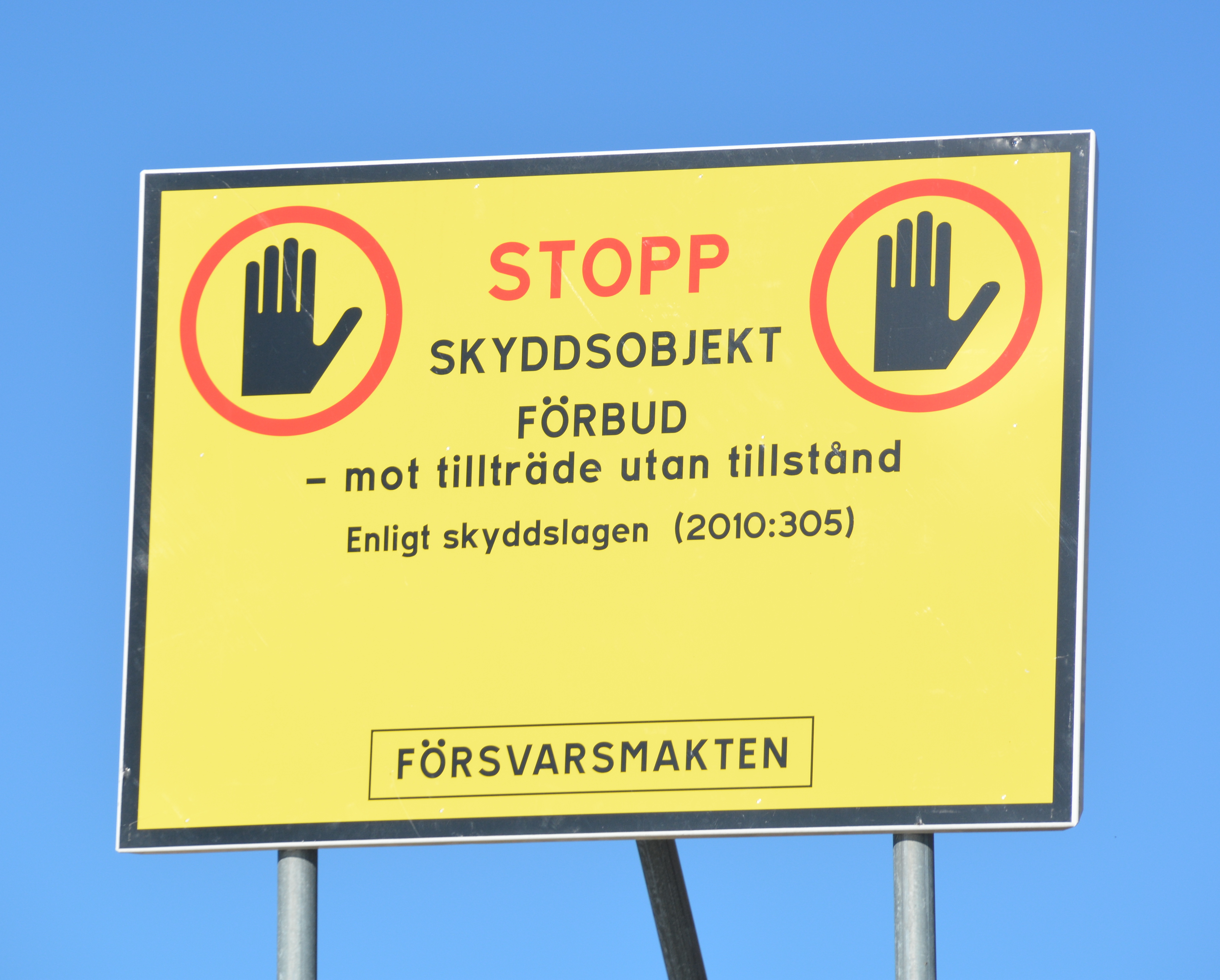 Sign board in Swedish for "Protected object", by Swedish Armed Forces, Känsö, outside Göteborg